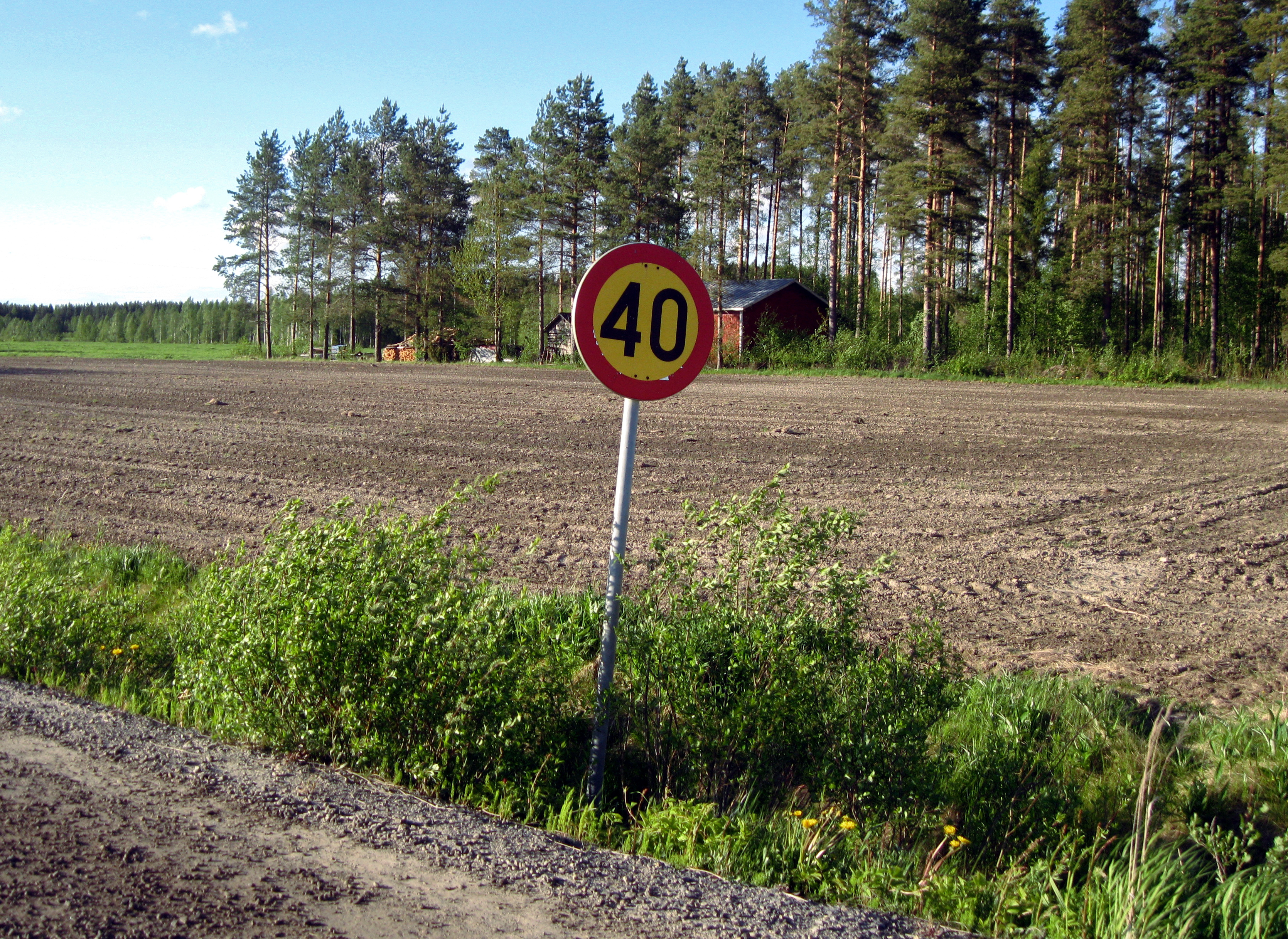 Finnish 40kph speed limit road sign.